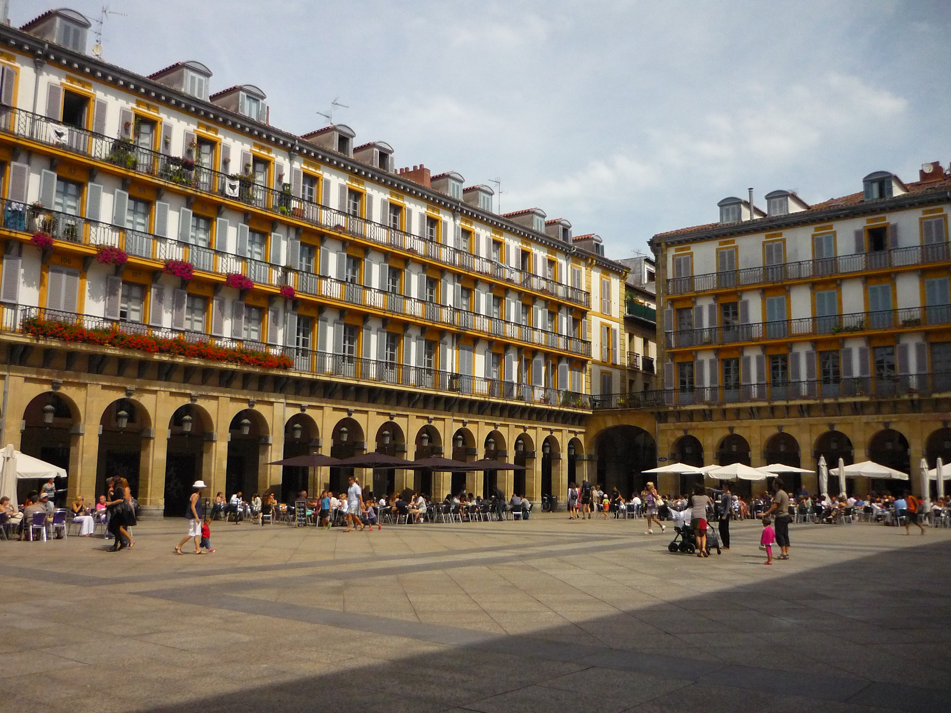 The "Plaza Constitución" (basque: "Konstituzio") in San Sebastián